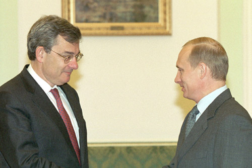 THE KREMLIN, MOSCOW. President Vladimir Putin with Jean Lemierre, the EBRD president.